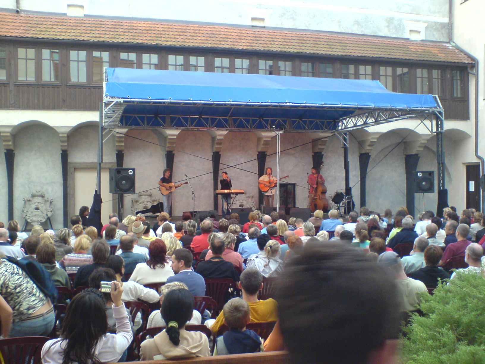 Czech folk group Nezmaři